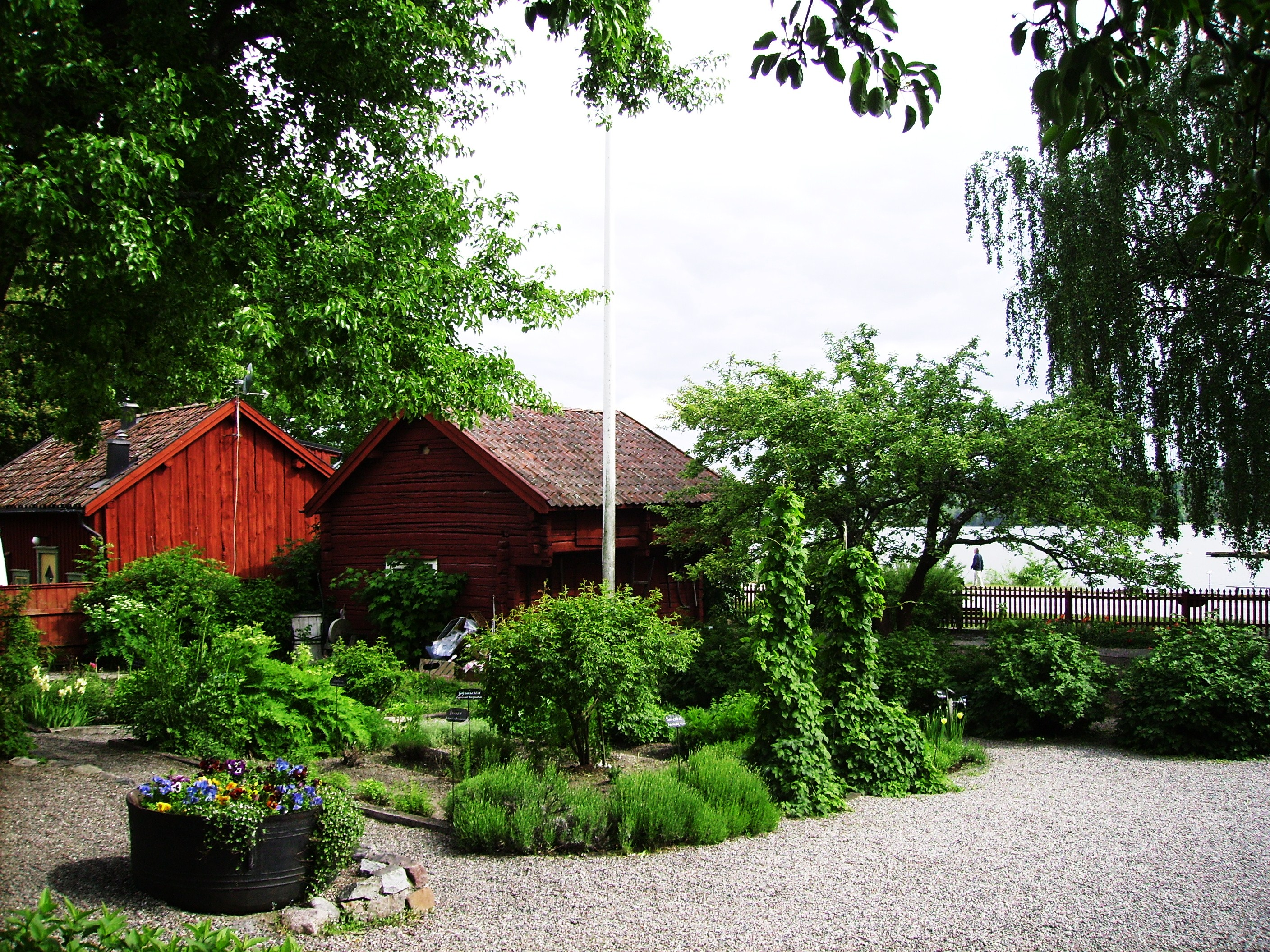 Picture of Callanderska gården in Mariefred